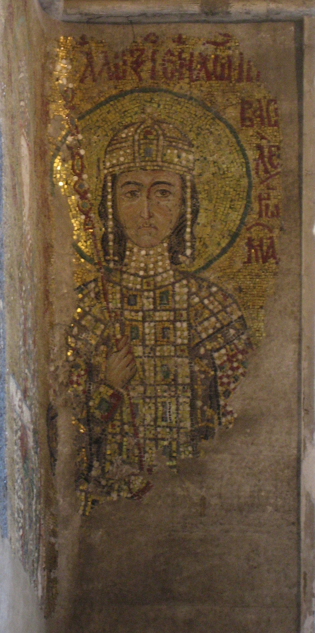 Mosaic of the Komnenos at the Hagia Sophia in Istanbul.